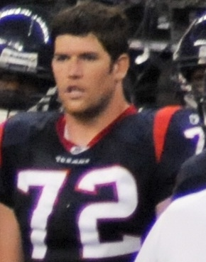 Jesse Nading on the sideline during a 2010 preseason NFL game at Reliant Stadium in Houston, Texas.